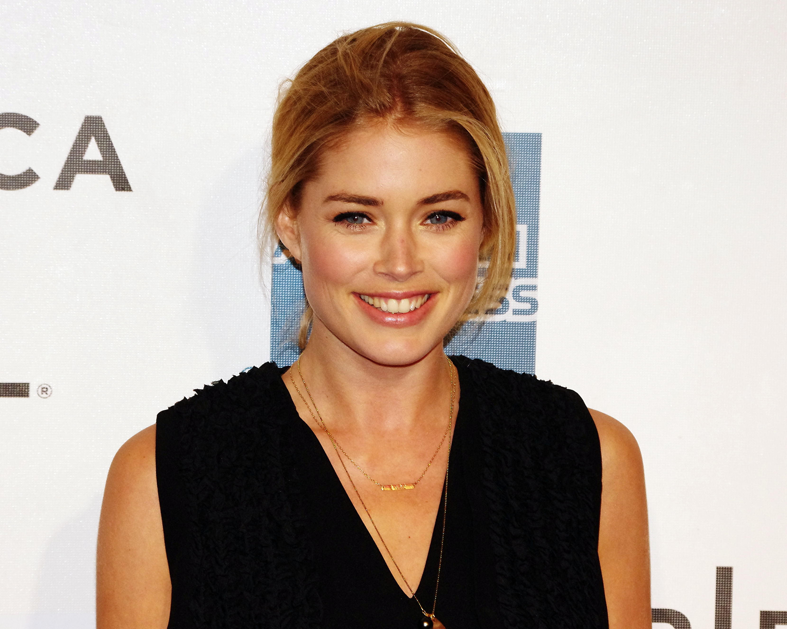 Doutzen Kroes at the world premiere of Mansome at the 2012 Tribeca Film Festival.